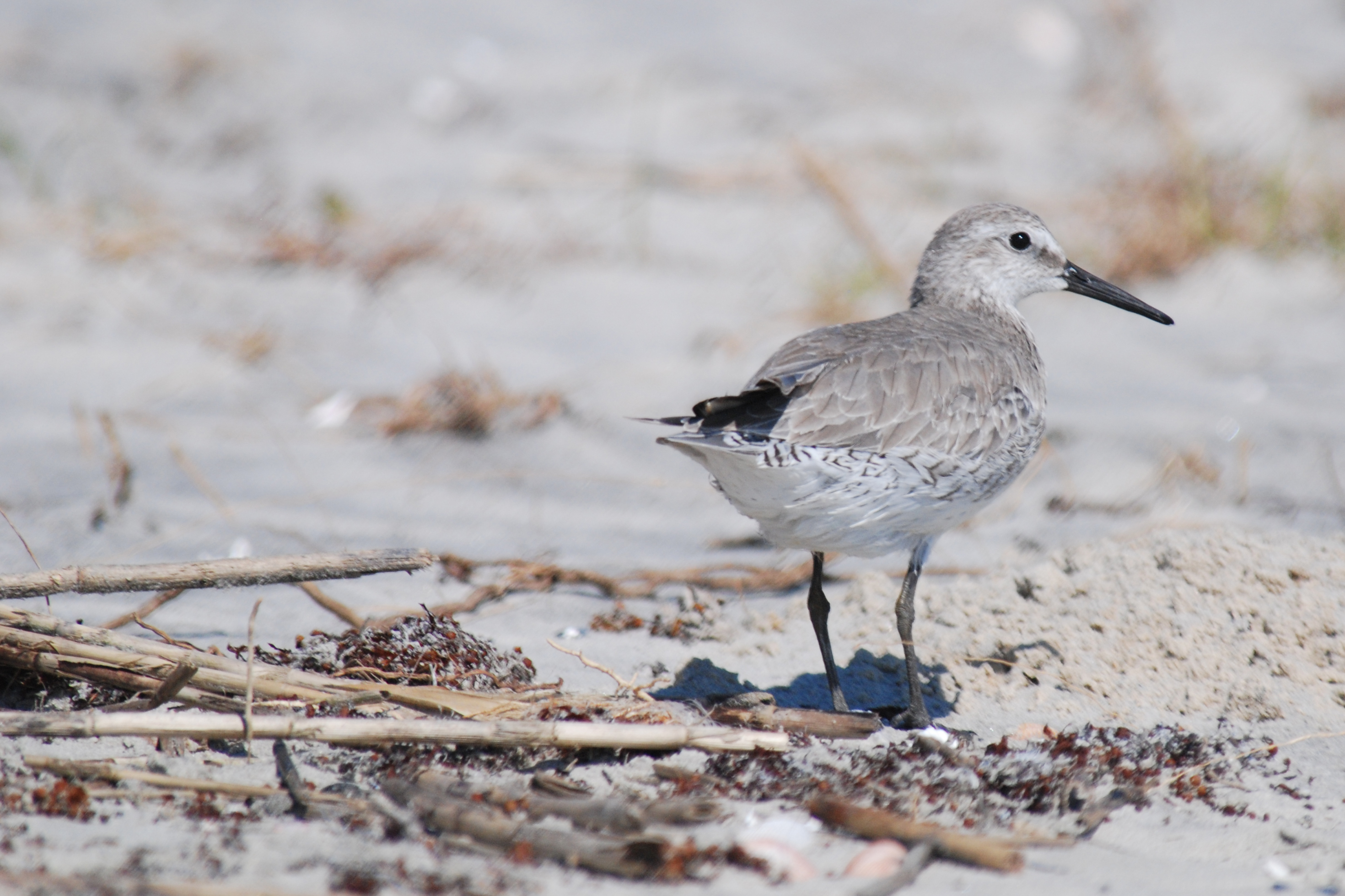 This is a Red Knot (Calidris canutus) seen on Sea Island, GA. These birds are in peril of being extinct by 2010 as man has been over-harvesting the horseshoe crab eggs it needs as fuel to complete it's migration of up to 9,300 mi from its Arctic breeding grounds to southern South America. The marine biologist who was with us seemed to think Sea Island was somewhat snotty.